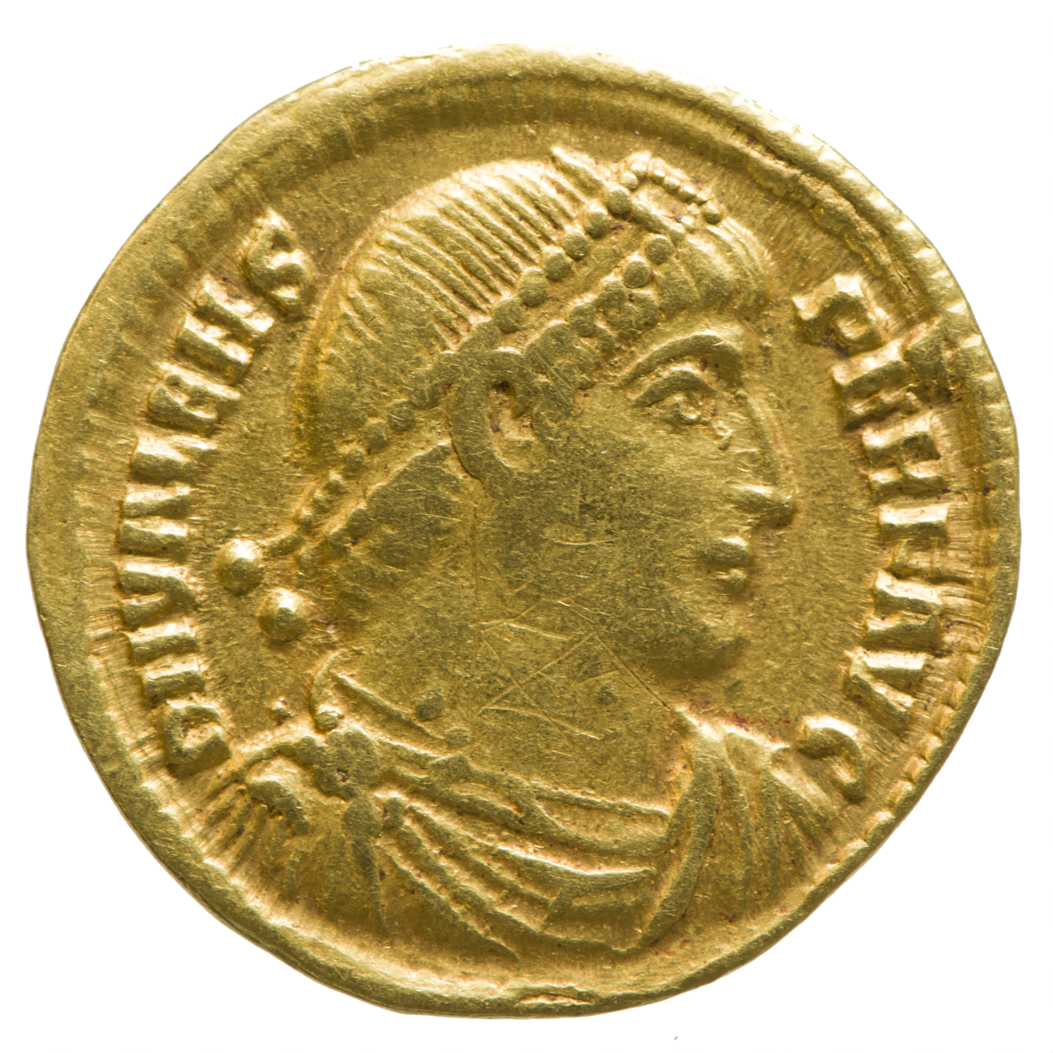 Obverse (front) of a solidus of Valens, showing head right, diademed, cuirassed, draped. Graffiti on bust